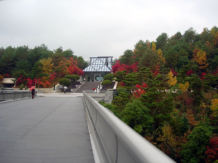 the autumn view of main building of Miho museum 美秀美術館 in Japan. designed by I.M.Pei. 貝聿銘